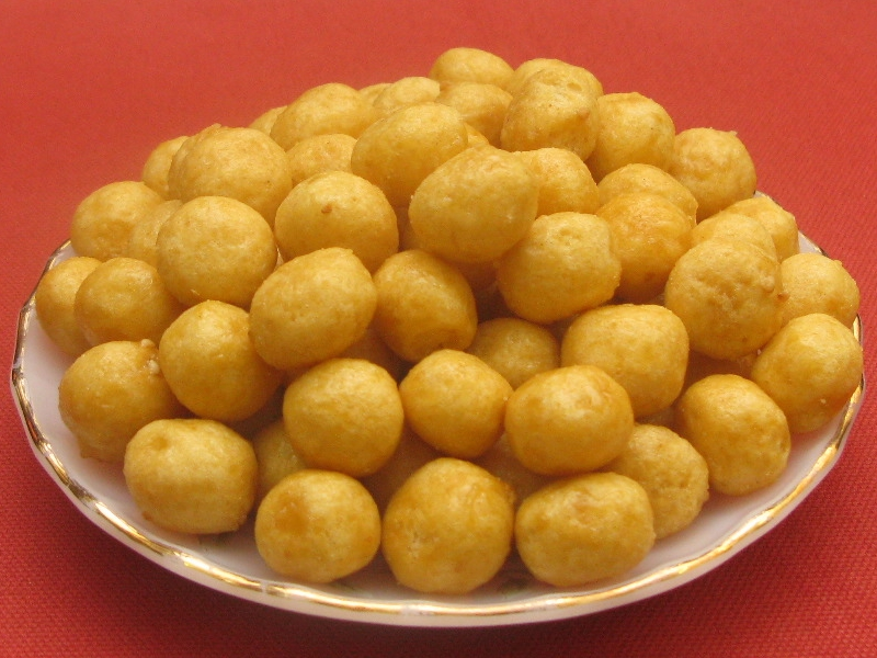 Bánh nhãn ("longan wafer"), traditional wafer of Hai Hau District, Nam Dinh Province, Vietnam. They look like longan fruits. Bánh nhãn are made from glutinous rice, chicken eggs and sugar.